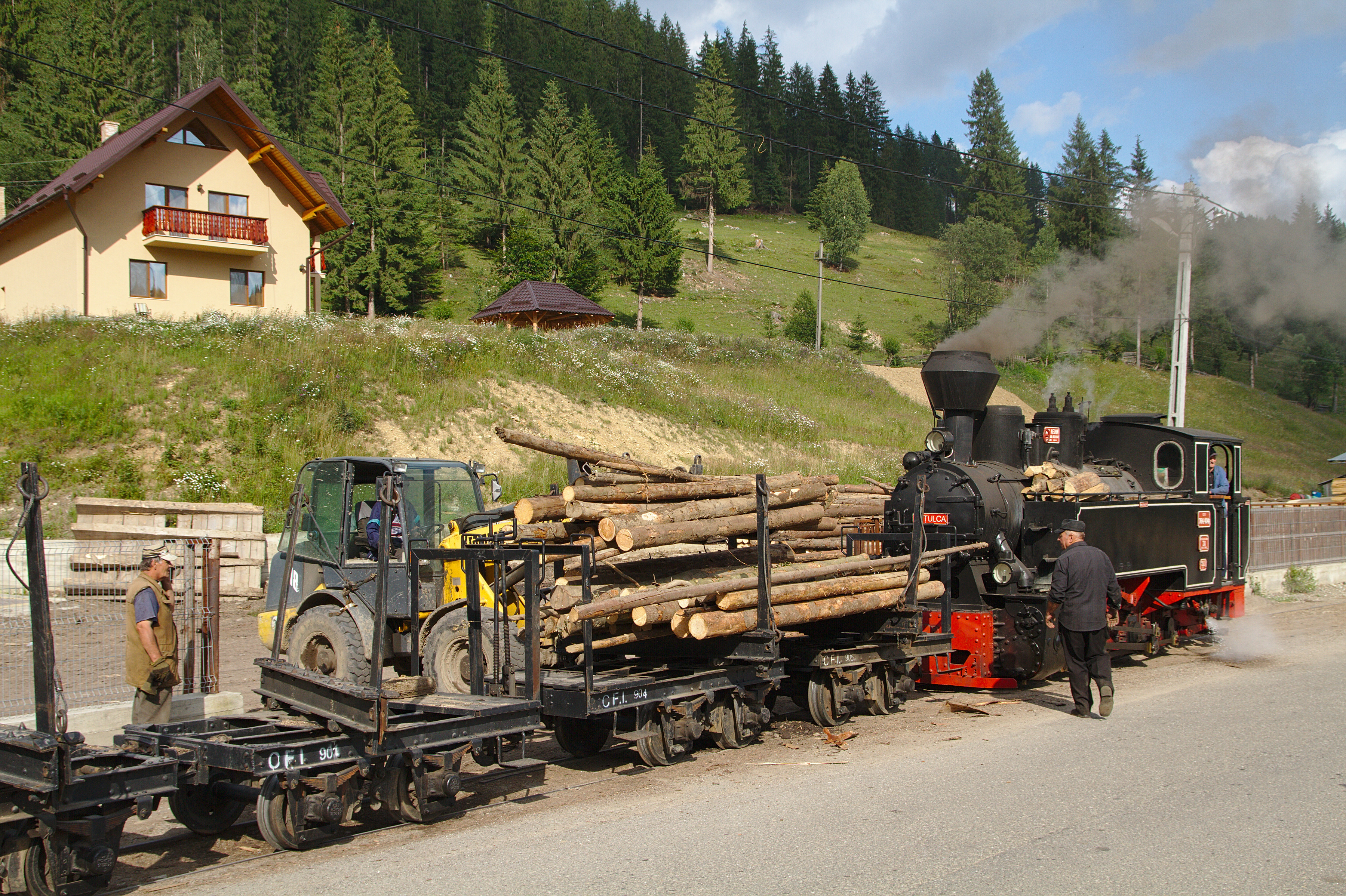 Loading firewood onto trucks at a sawmill along the line reminds of the original purpose of what's today a tourist railway.